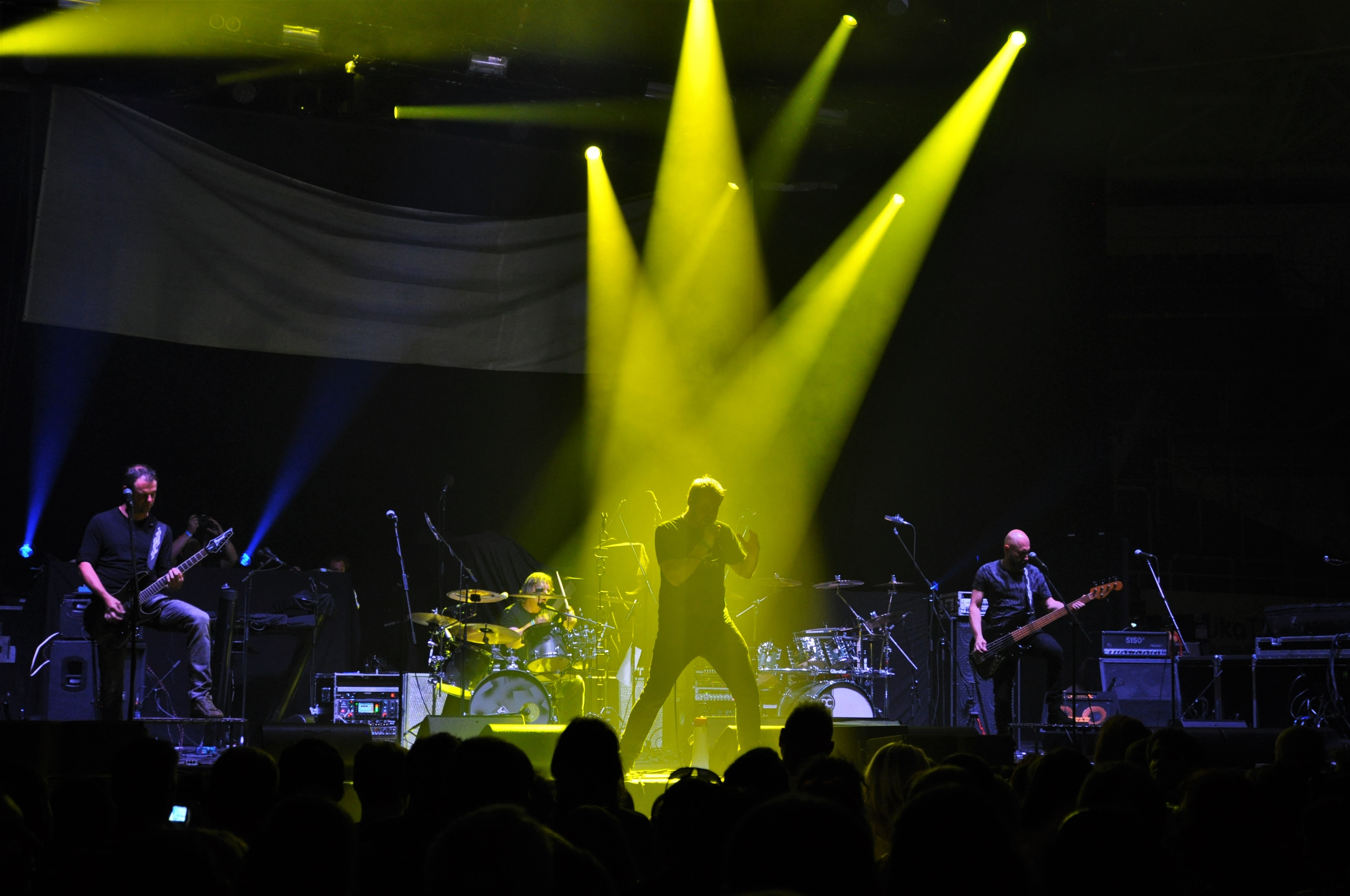 Photo from the Public Relations's live gig in Rondo hall, Brno, Czech Republic